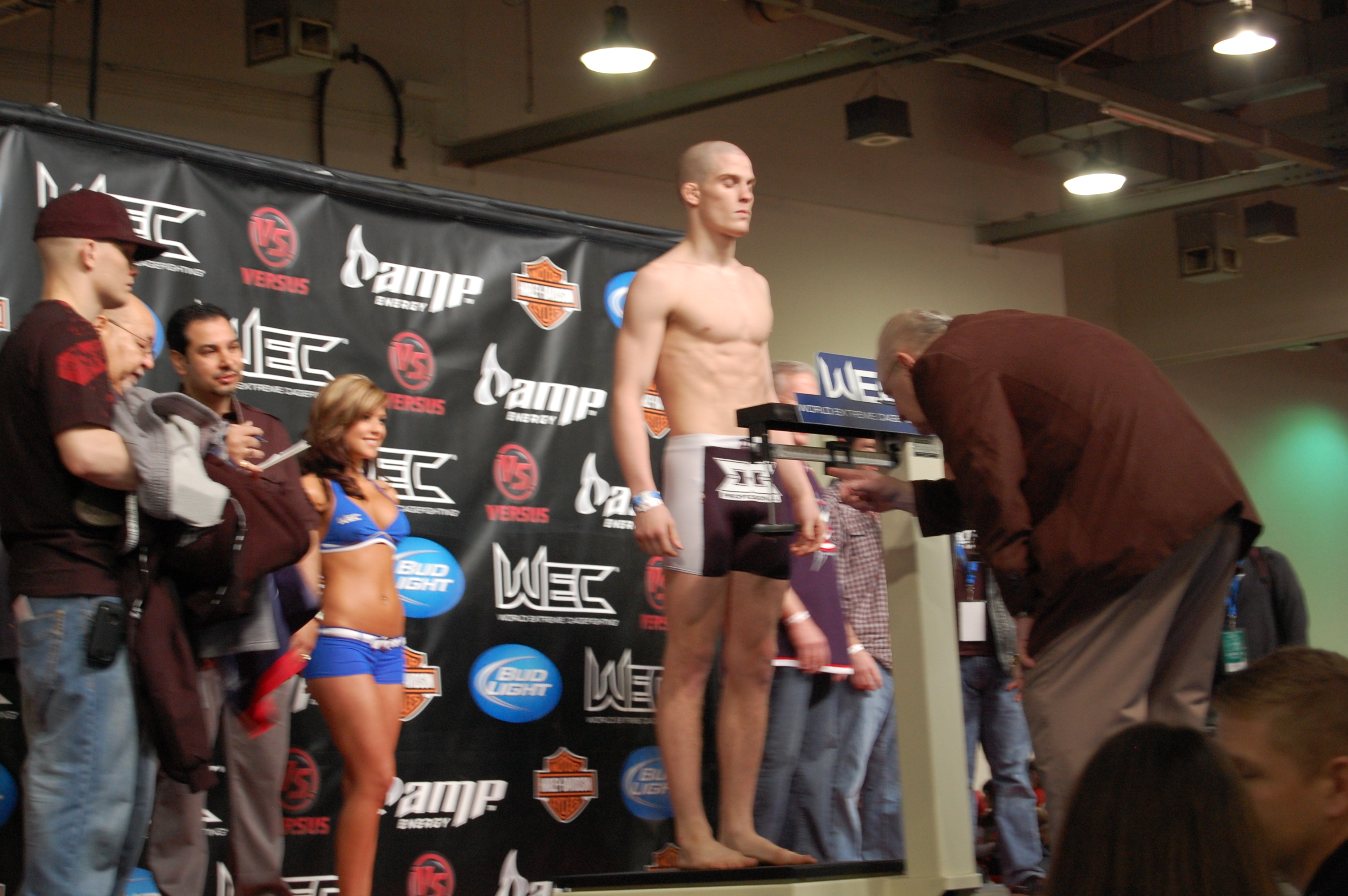 WEC 47 Fighter Weigh Ins at the Arnold Sports Festival in Columbus, Ohio (2010).